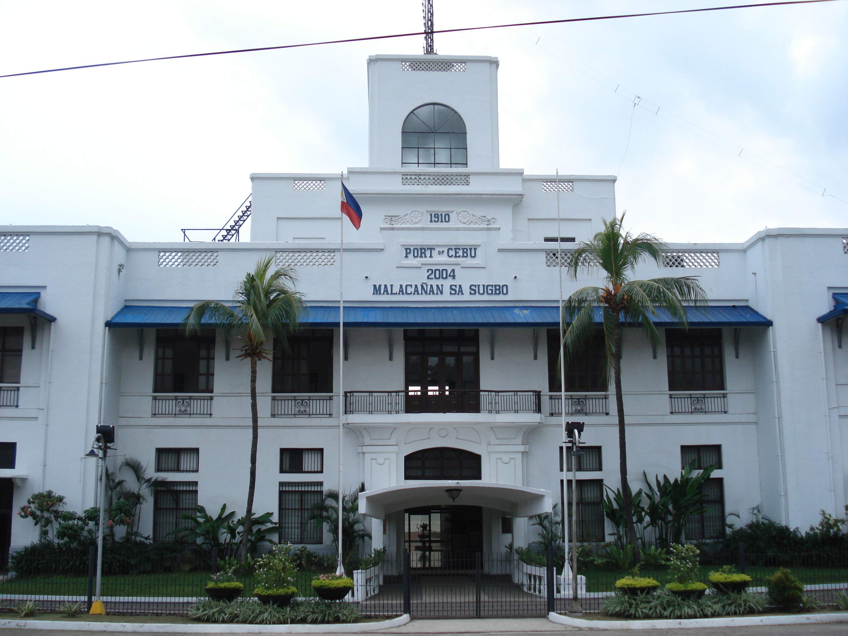 The Presidential Palace in Cebu City